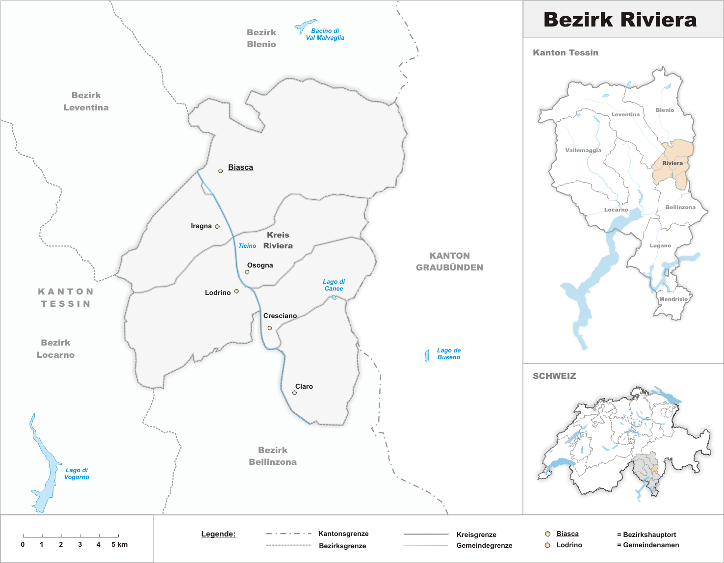 Municipalities in the district of Riviera